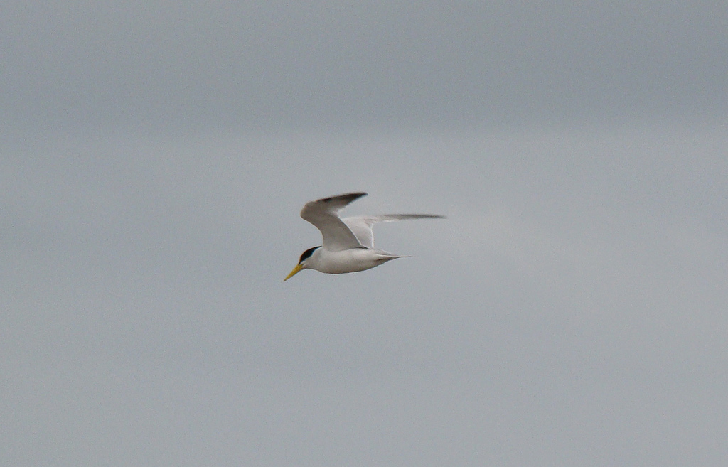 Sterna superciliaris photographed in Rio Grande do Sul, Brazil, on December 2008.